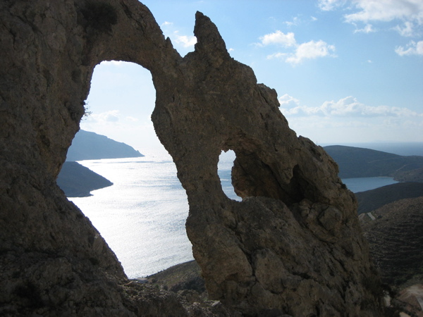 The natural rock arch in Kalymnos. Taken looking south.